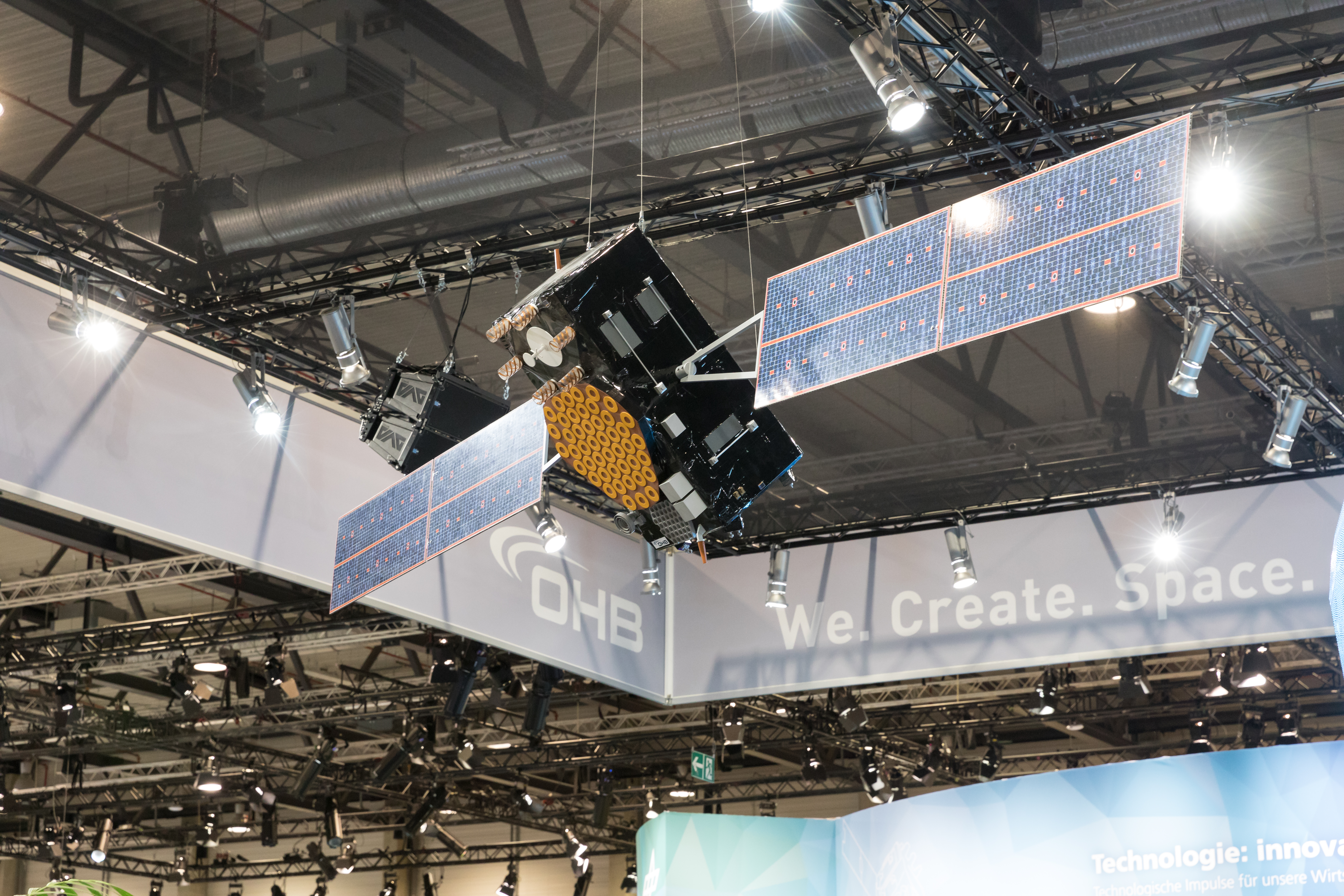 ILA 2018